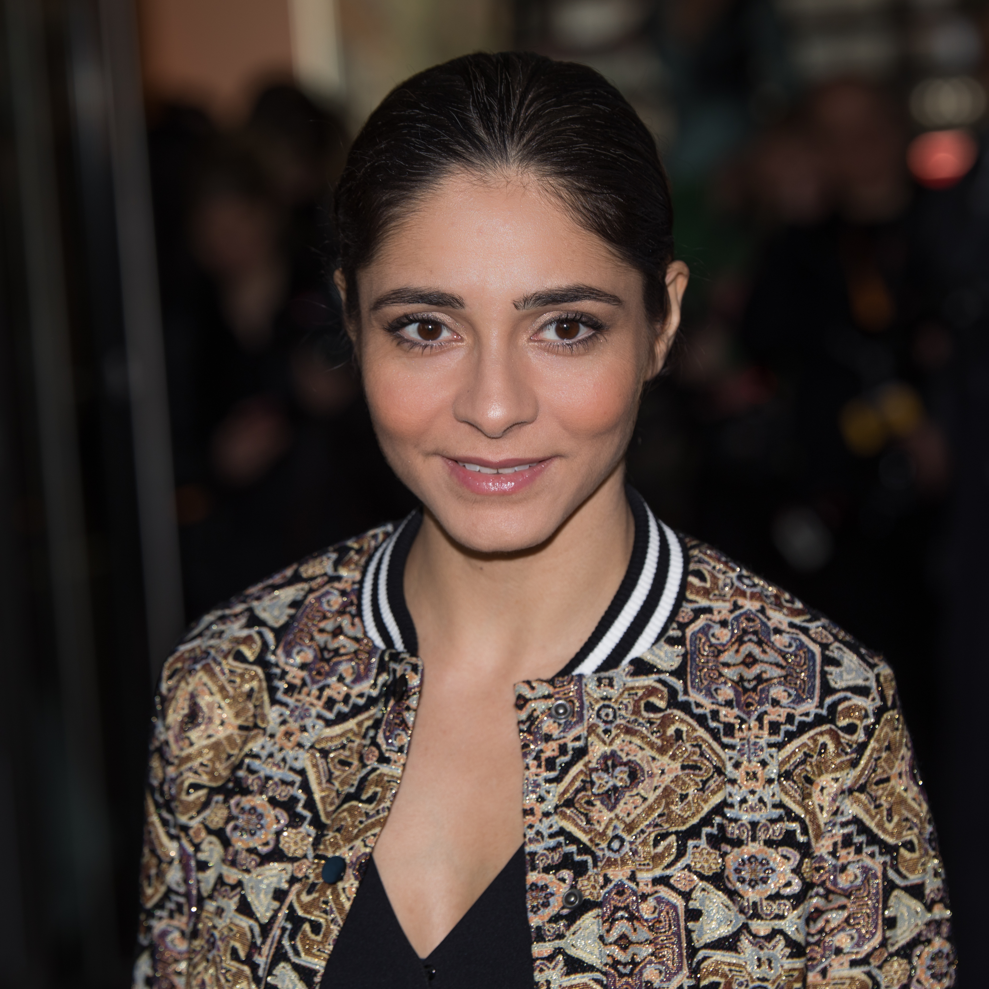 Pegah Ferydoni at the reception of the state government of Hesse, Berlinale 2018